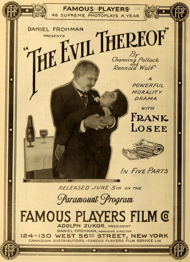 Advertisement in The Moving Picture World for the American film The Evil Thereof (1916).